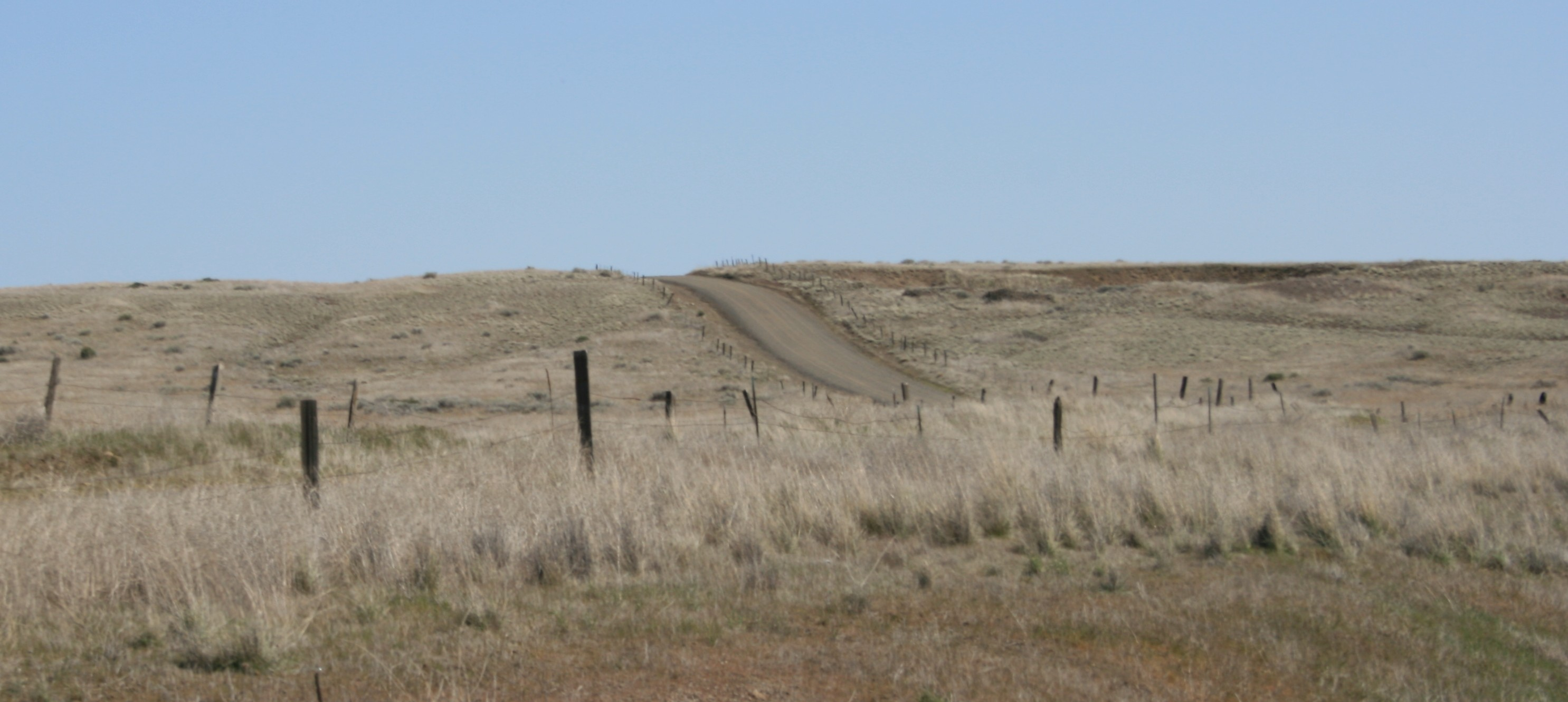 For use with the article Mullan Road, this photo shows one of the few remaining stretches of the road which follow the original route and are still in service.